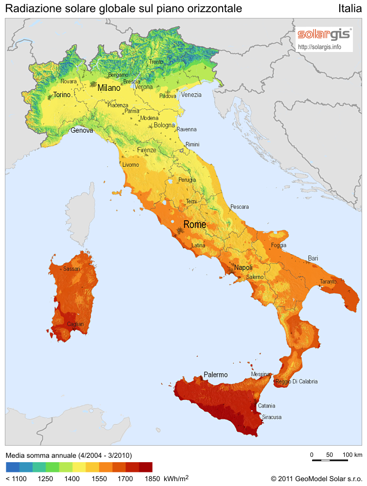 Solar Radiation Map: Radiazione Solare Globale sur piano orizzontale Italia, SolarGIS 2011